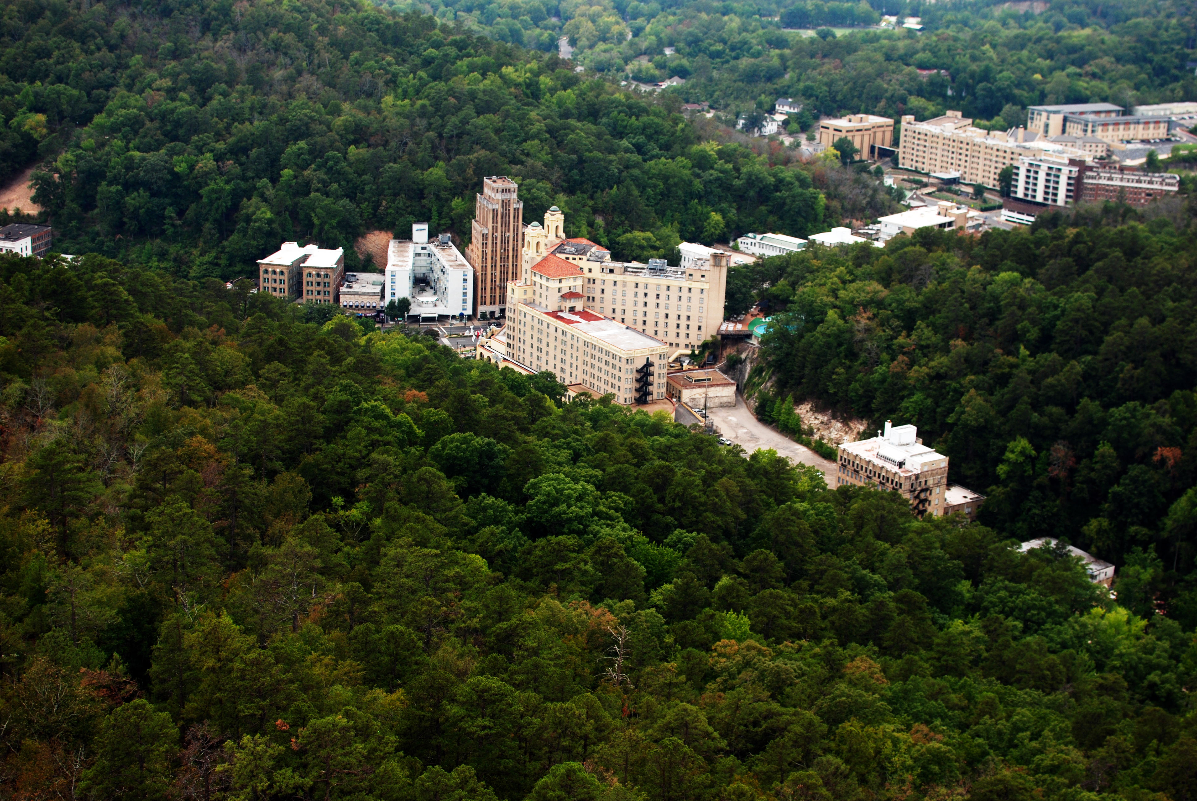 Aerial view of downtown Hot Springs, Arkansas.